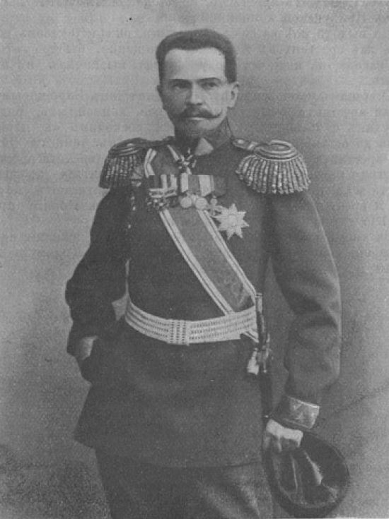 Major general Nikolay Butovskiy. The Russian Empire. 1904.